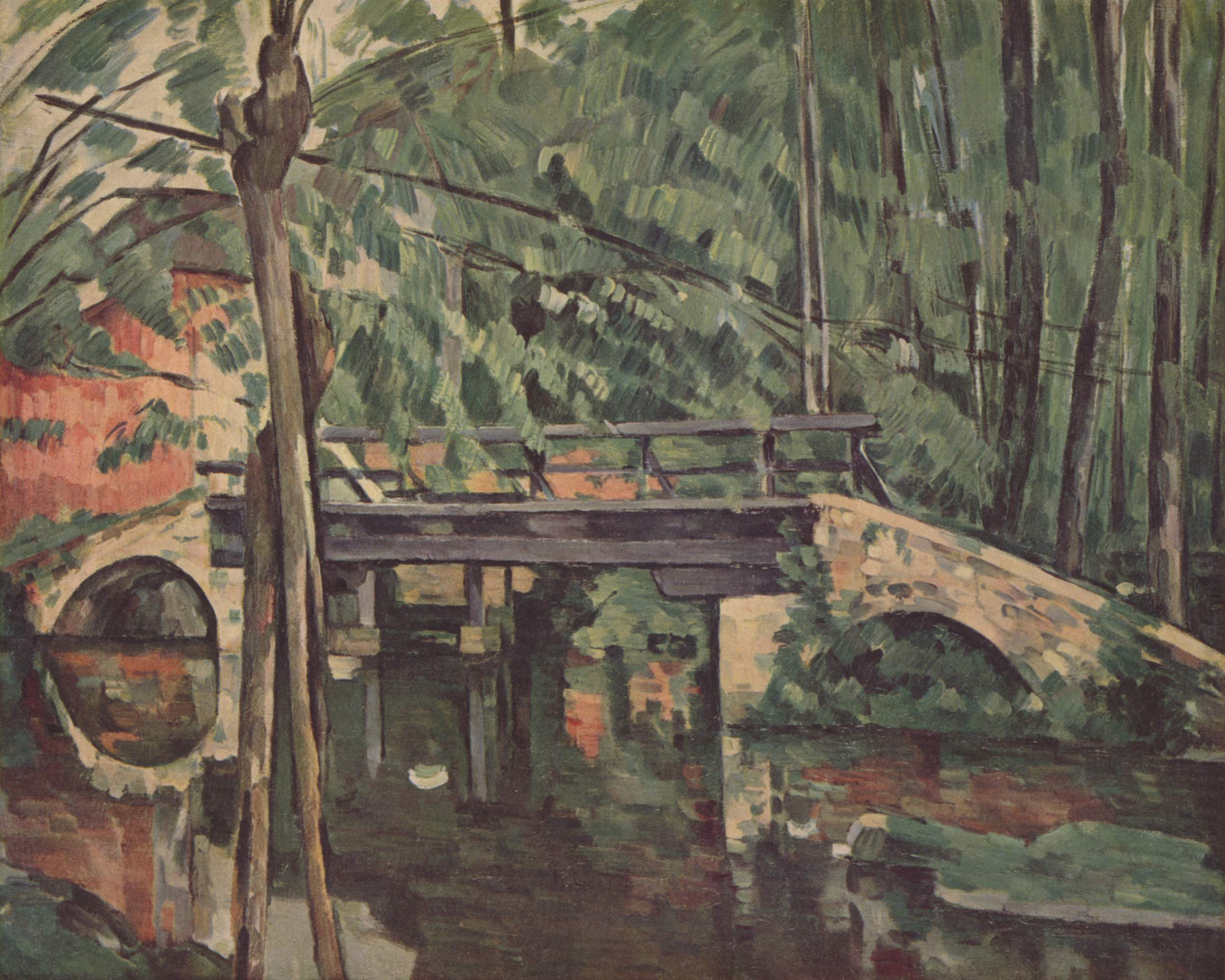 This bridge still exists today between Melun and Maincy on the river Almont.